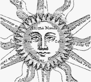 Neoplatonic Sun